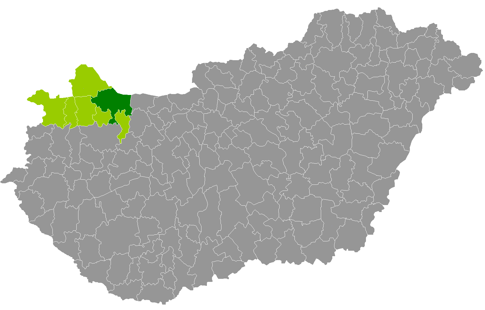 Location of Győr District, Győr-Moson-Sopron, Hungary